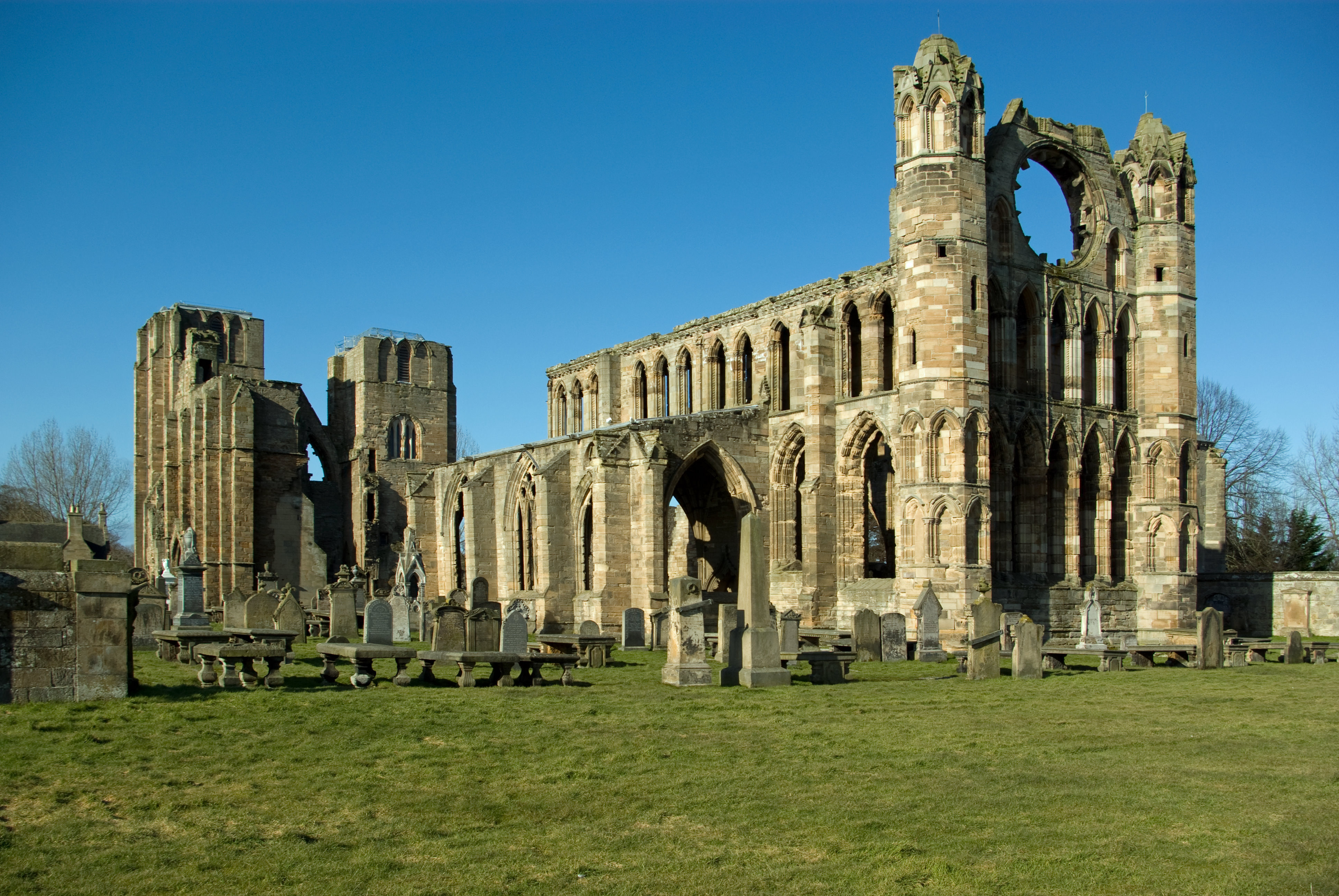 View of cathedral from south-east